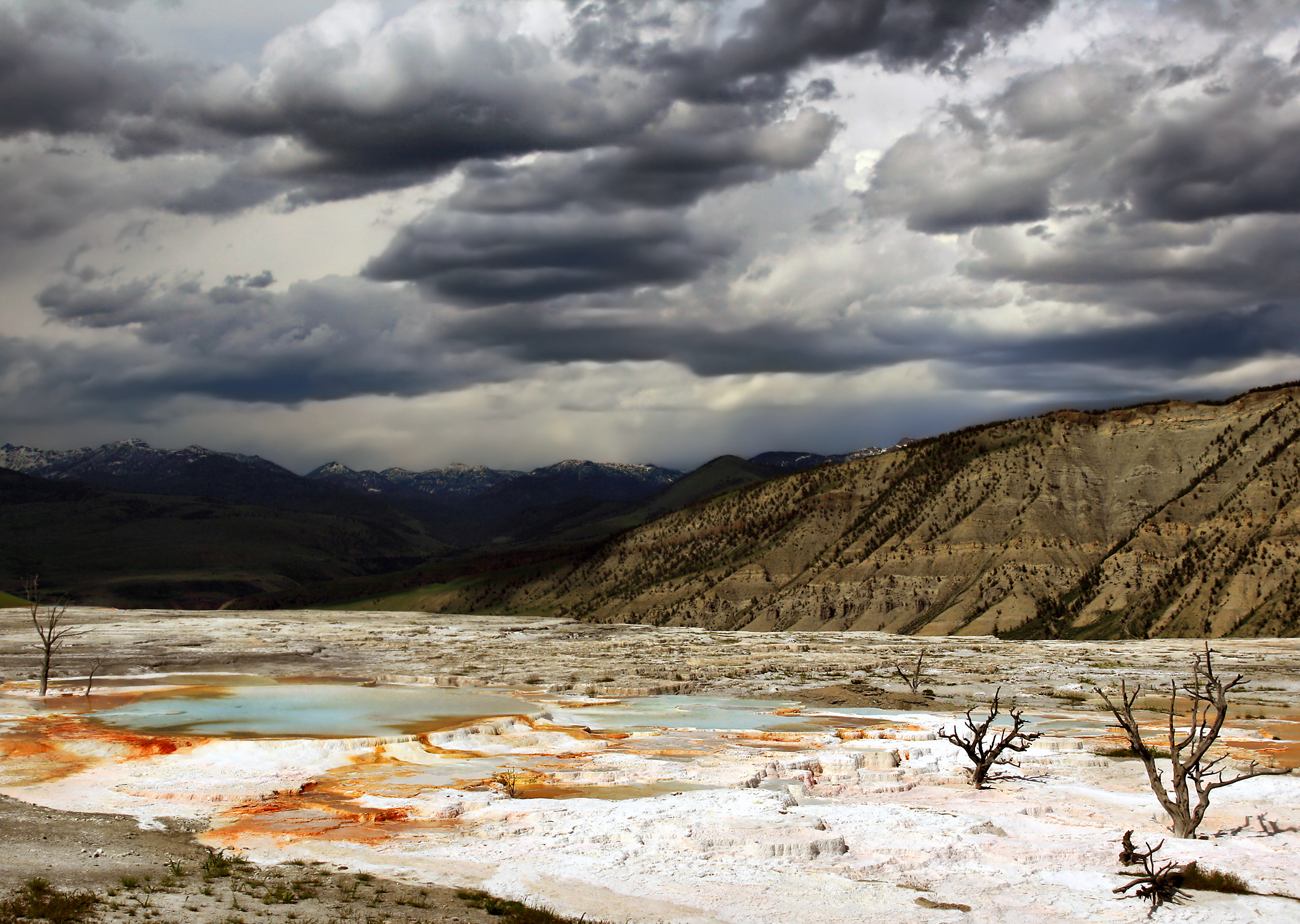 Hot water is the creative force of the terraces. Even though Mammoth Hot Springs lie north of the caldera ring-fracture system, a fault trending north from Norris Geyser Basin, 21 miles (34 km) away, may connect Mammoth Hot Springs to the hot water of that system. A system of small fissures carries water upward to create approximately 50 hot springs in the Mammoth Hot Springs area. Another necessary ingredient for terrace growth is the mineral calcium carbonate. Thick layers of sedimentary limestone, deposited millions of years ago by vast seas, lie beneath the Mammoth area. As ground water seeps slowly downward and laterally, it comes in contact with hot gases charged with carbon dioxide rising from the magma chamber. Some carbon dioxide is readily dissolved in the hot water to form a weak carbonic acid solution. This hot, acidic solution dissolves great quantities of limestone as it works up through the rock layers to the surface hot springs. Once exposed to the open air, some of the carbon dioxide escapes from solution. As this happens, limestone can no longer remain in solution. A solid mineral reforms and is deposited as the travertine that forms the terraces. (The image caption was taken from here.)